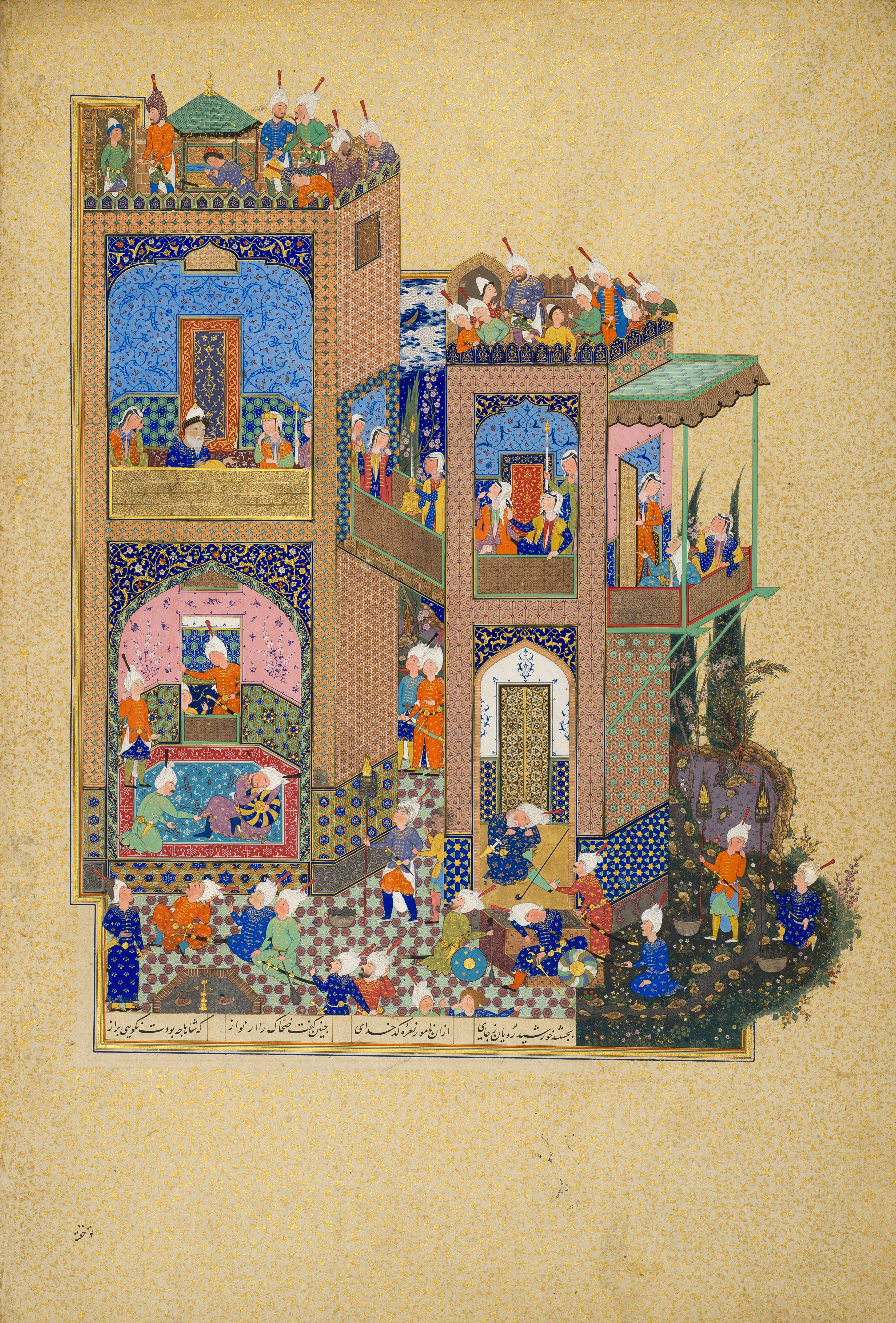 The Nightmare of Zahhak, a depiction of the tale from Shahnama (book of kings)